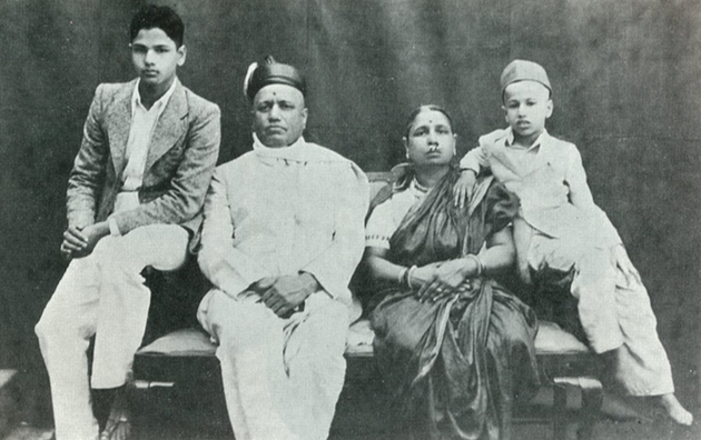 Chandrashekhar Agashe and Indirabai Agashe with sons Jagdish Agashe and Dnyaneshwar Agashe sometime in the early 1950s.